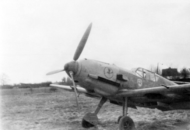 A German Messerschmitt Bf 109E of 9/JG 2 Richthofen at Jever, Germany, in 1941. The emblem of the 9th Squadron is visible on the cowling, the emblem of the 2nd Fighter Wing is visible below the cockpit. JG 2 was based in France on the Channel coast at that time.